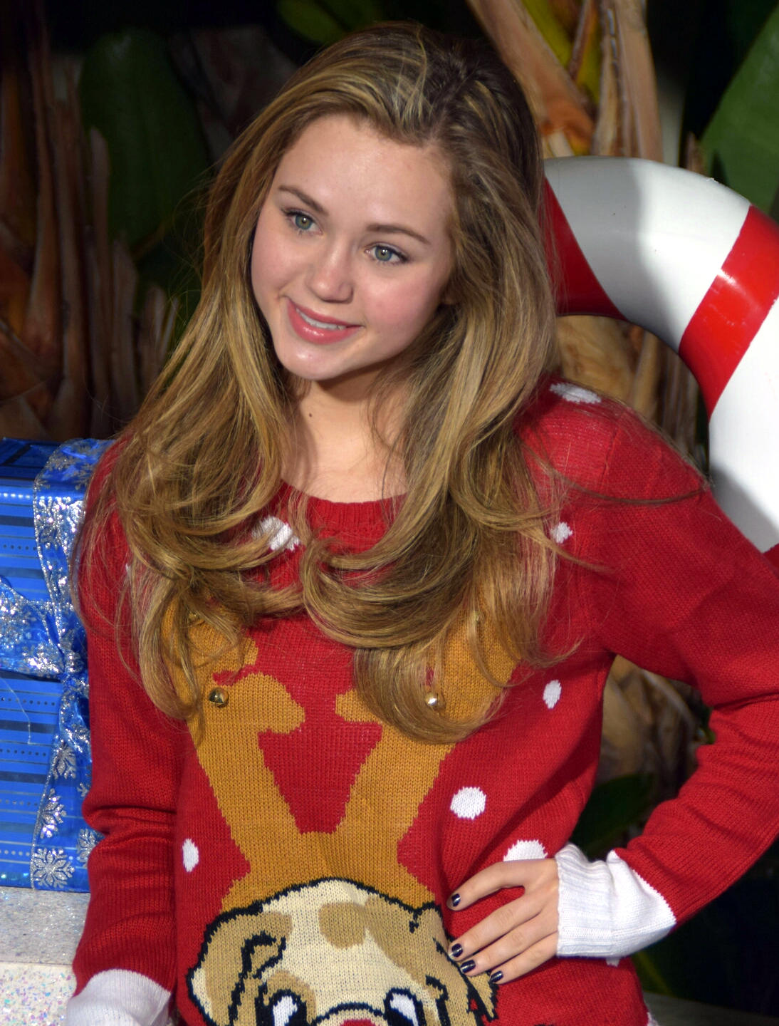 Actress Brec Bassinger at Nickelodeon's "Ho Ho Holiday Special" premiere in December, 2015